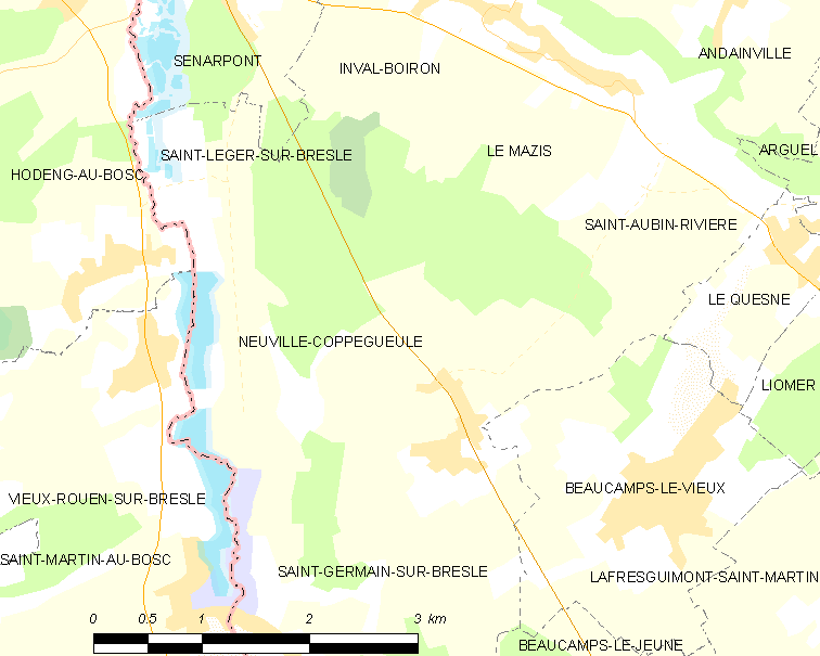 Map of French municipality Neuville-Coppegueule